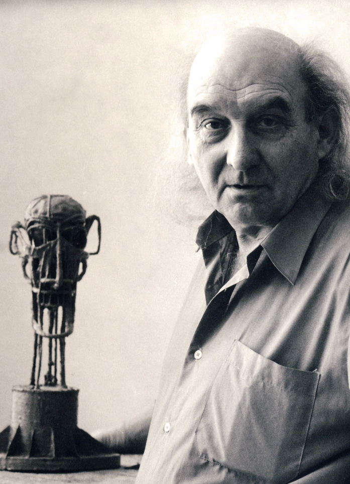 Czech sculptor and drawer Karel Nepraš in his studio